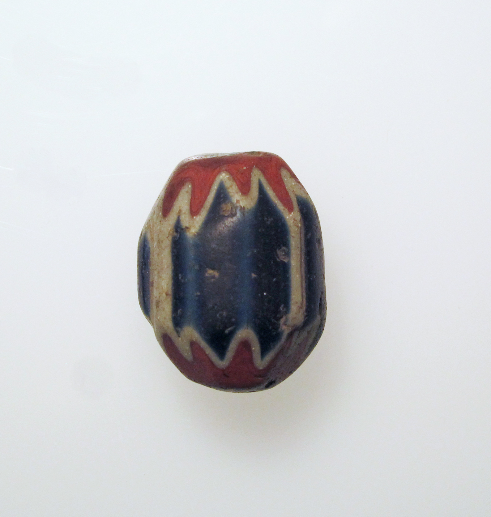 Venetian; Chevron bead; Glass